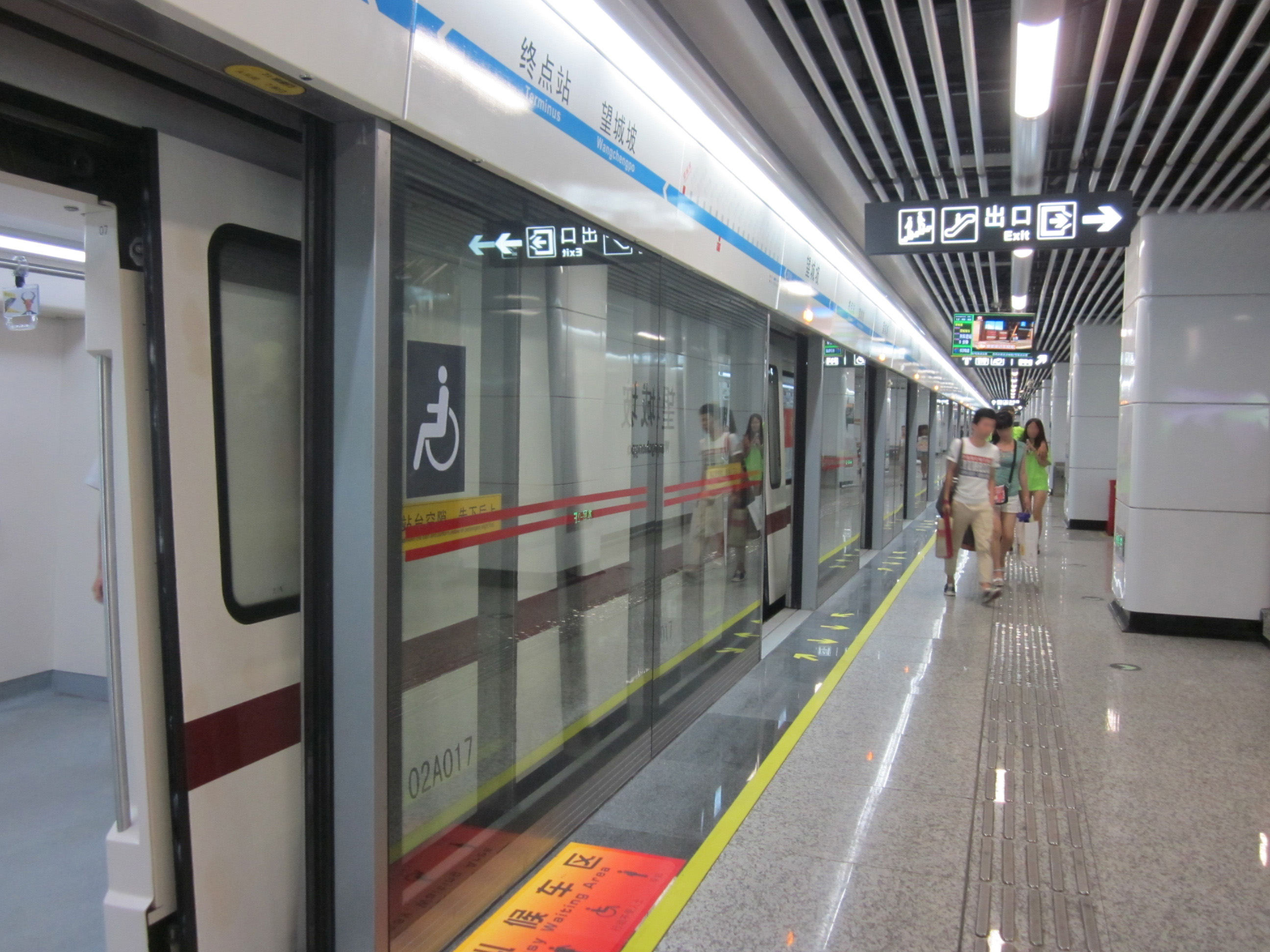 Line 2, Changsha Metro.